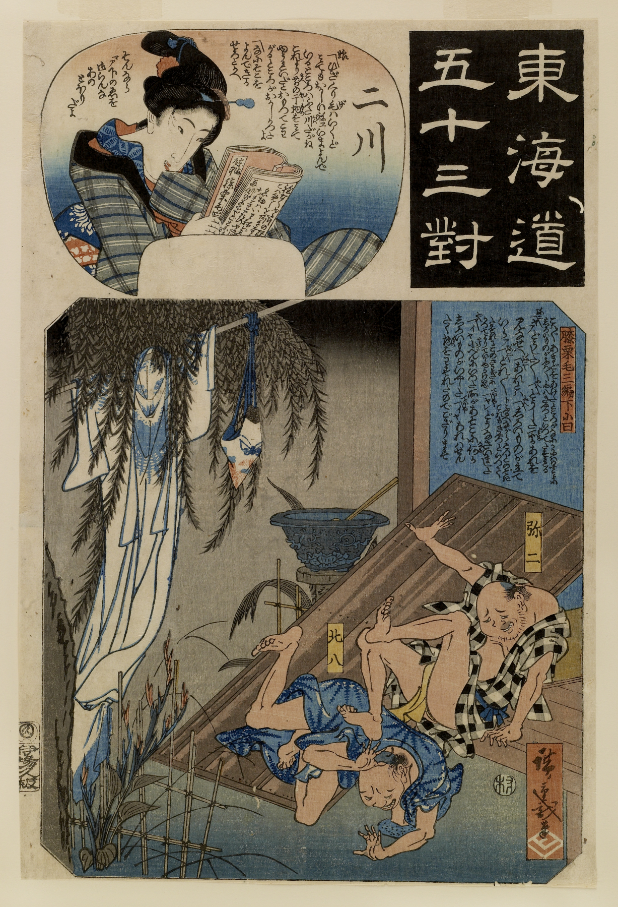 In this print everything goes topsy-turvy as people run into each other trying to escape from a snapping turtle. This print illustrates a scene from the comic novel "Footing It along the Tokaido Road" (or "Shank's Mare") by Jippensha Ikku (1765-1831). The main characters are Yaji and Kita, two happy-go-lucky travelers who experience many adventures as they go along the road between Edo (Tokyo) and Kyoto.